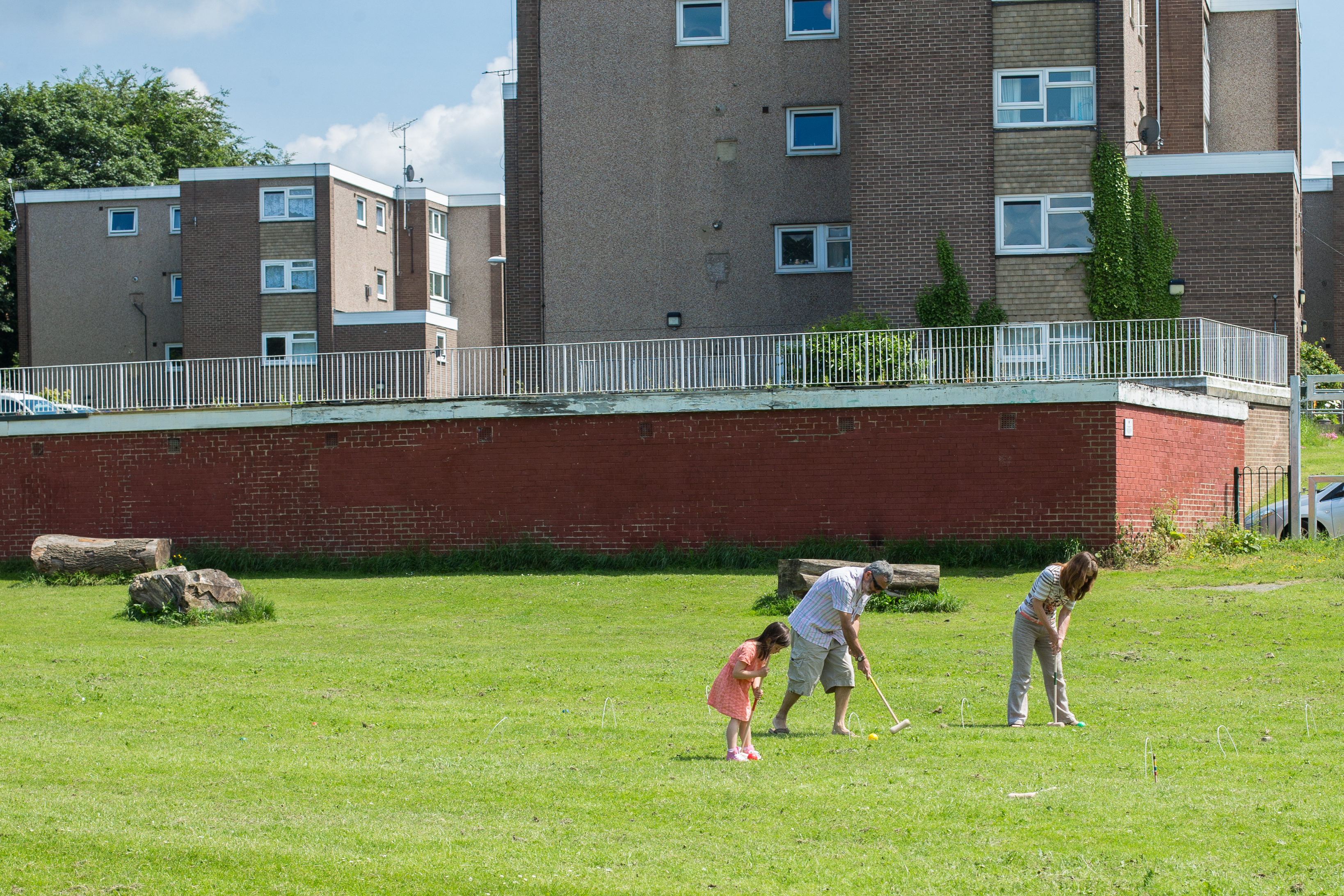 The Big Lunch, Sandringham Park, Wetherby, West Yorkshire